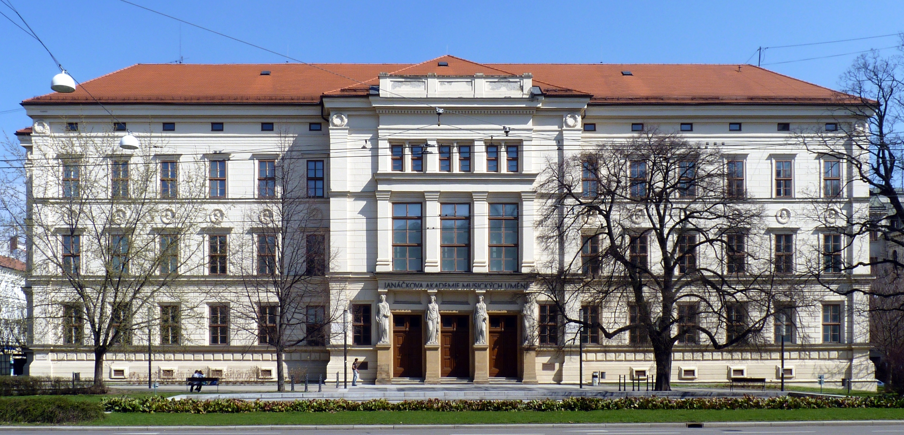 Janáček Academy of Music and Performing Arts in Brno, Czech Republic